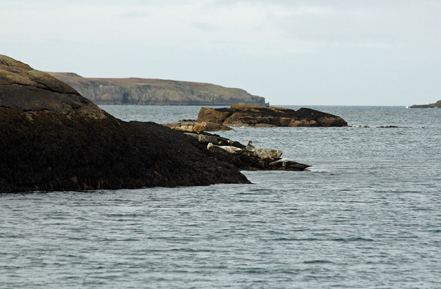 Eilean a' Ch?r Summer Isles, 4 km from Polbain, Highland, Great Britain. Seals on the rocks with Glas-leac M?r in the distance